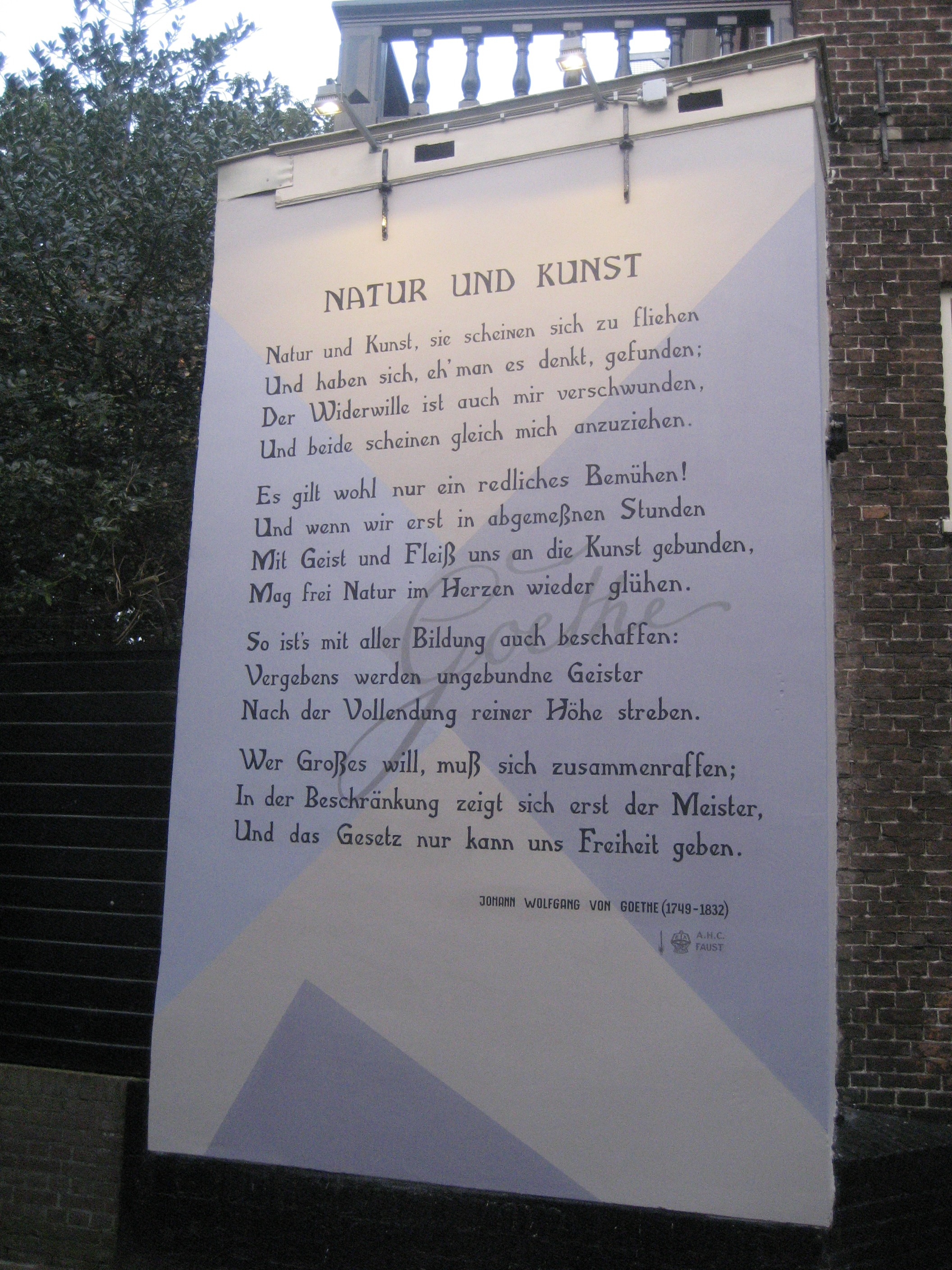 Wall poem Natur und Kunst by Johann Wolfgang von Goethe in Leiden (The Netherlands). Place: Veerstraat, corner Plantage. Unveiled Sept. 2014